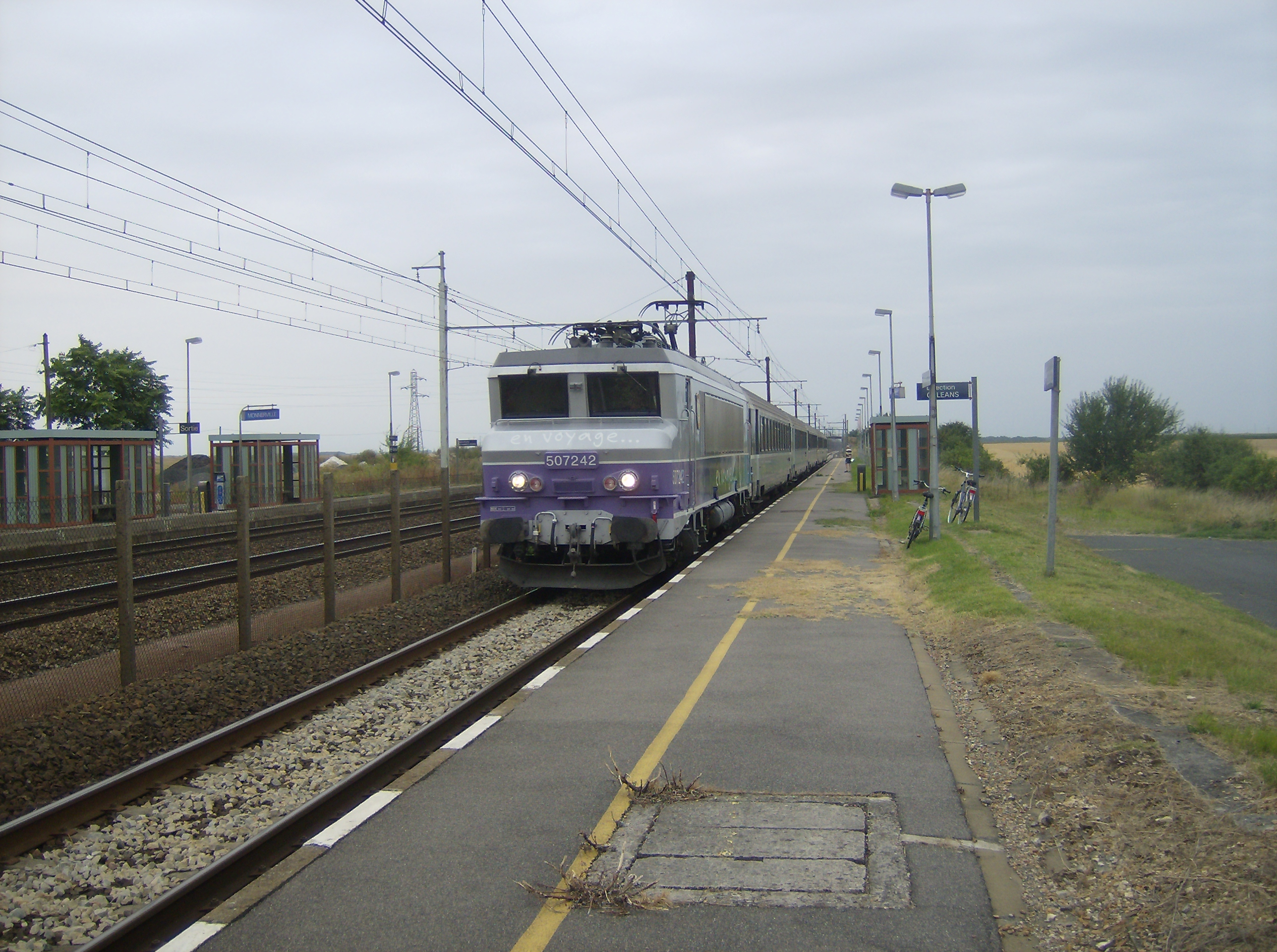 SNCF 7242 arrives at Monnerville with an early morning train from Paris Austerlitz to Orleans.